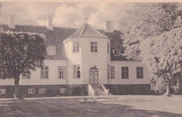 Gjedsergaard in Falster, Denmark